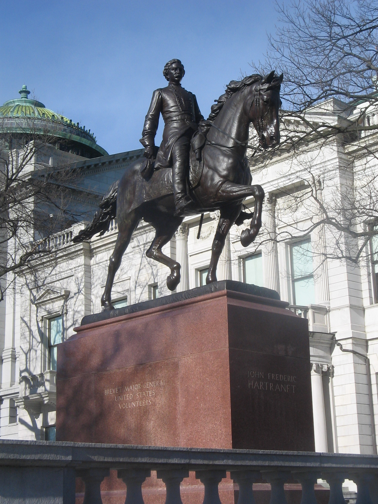 Equestrian Statue of Gen. John F. Hartranft (1897-1899) by Frederick Ruckstull, Pennsylvania State Capitol grounds, Harrisburg, Pennsylvania, USA